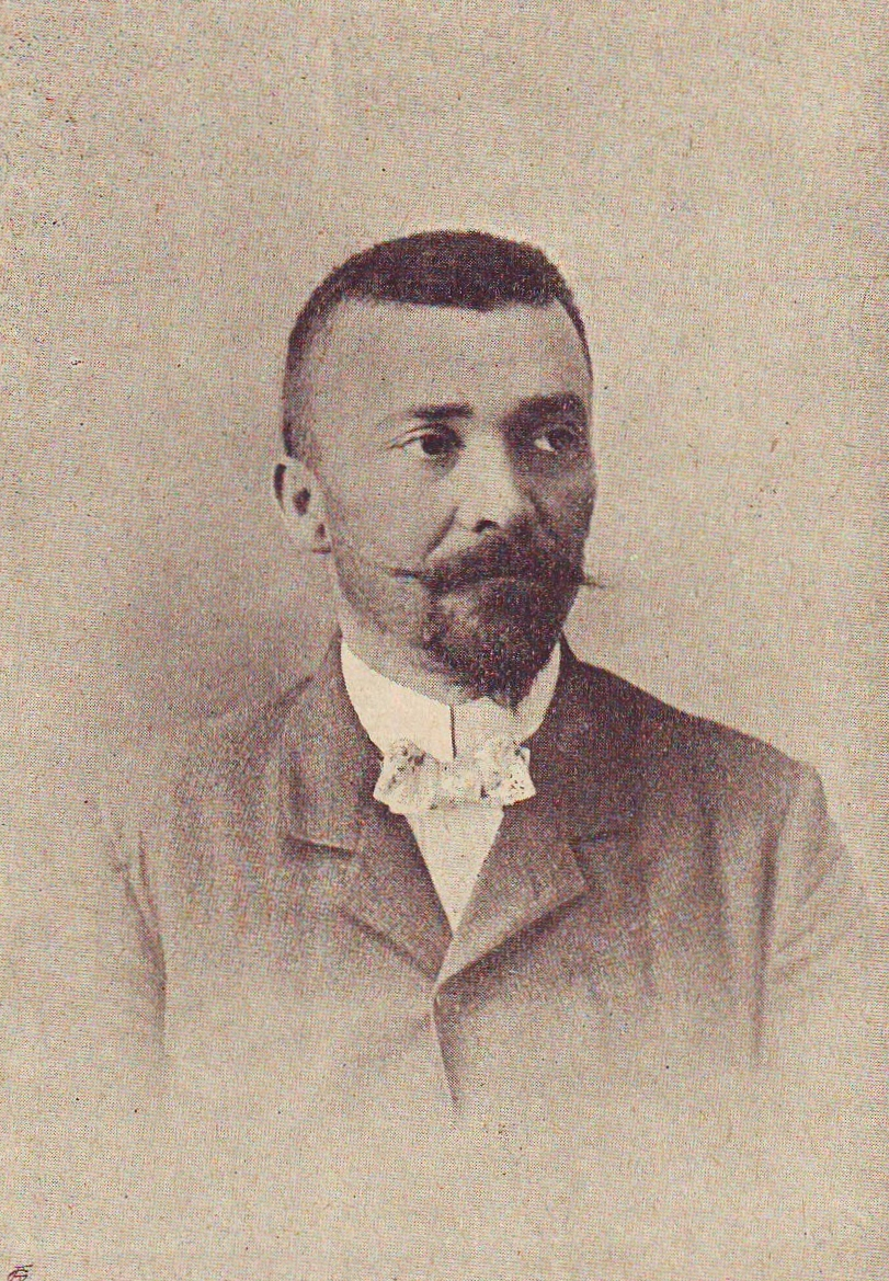 A photograph of Dragomir Obradović, Serbian professor and minister of religion of the Kingdom of Serbs, Croats and Slovenes in 1927. Srpski (latinica): Fotografija Dragomira Obradovića, srpskog profesora i ministra vera Kraljevine SHS 1927.